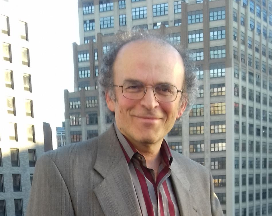 Picture of Gregory Piatetsky-Shapiro in New York city in 2016